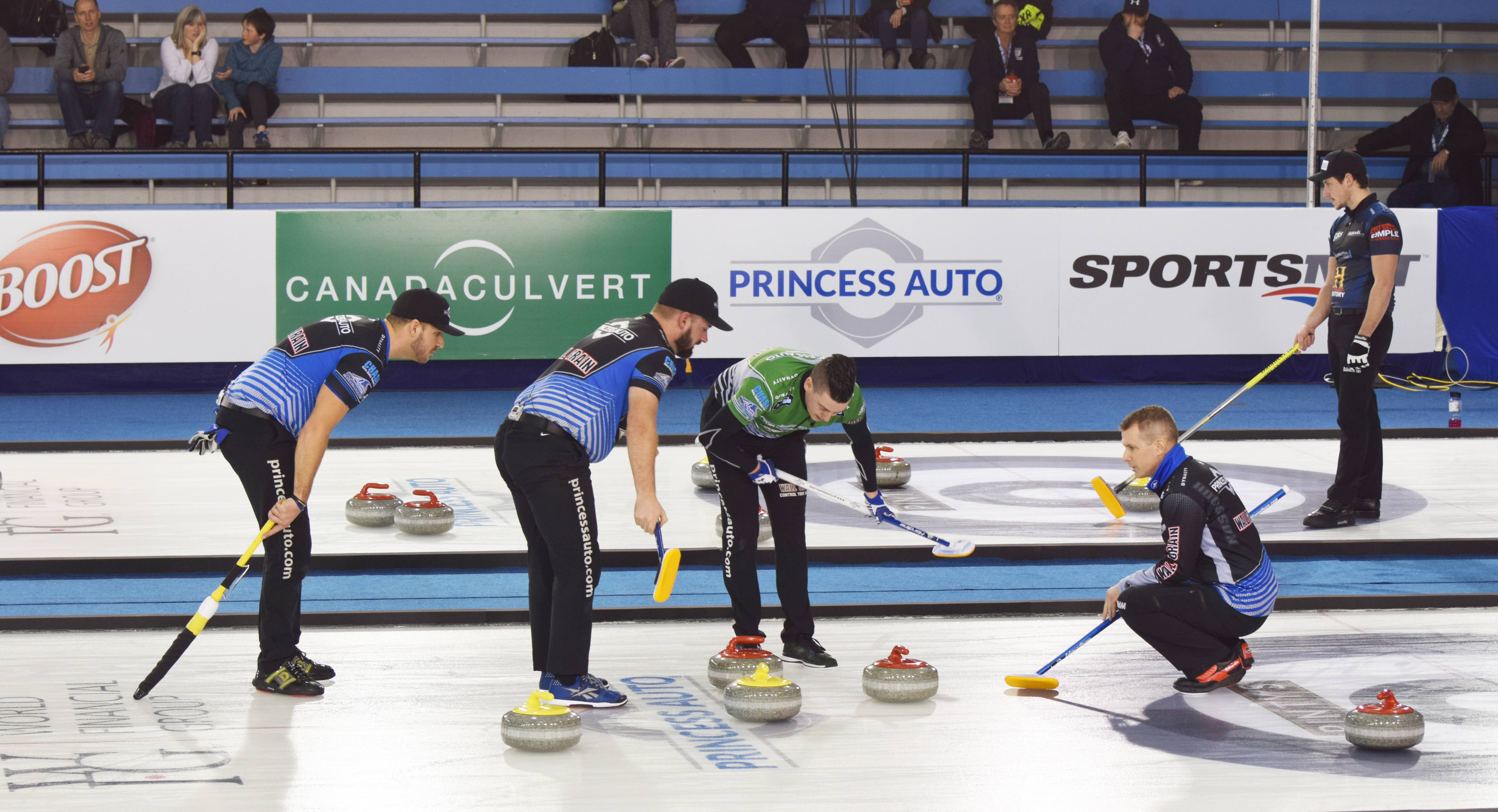 Derek Samagalski follows his rock while Reid Carruthers and Colin Hodgson sweep at the 2018 Elite 10 Grand Slam curling event in Winnipeg, Manitoba.